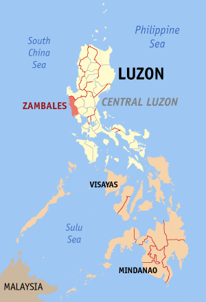 Map of the Philippines showing the location of Zambales